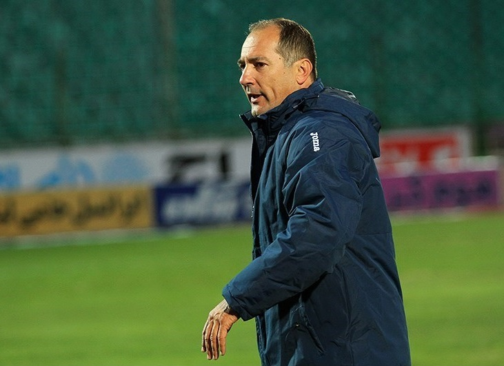 Igor Štimac, head coach of Sepahan